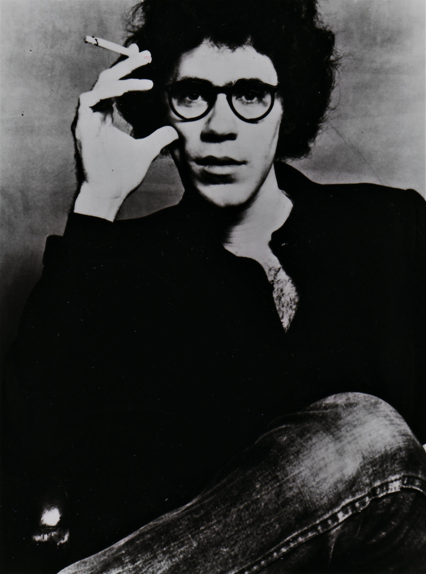 A publicity photo of Joe Brainard for his 1970 book I Remember.